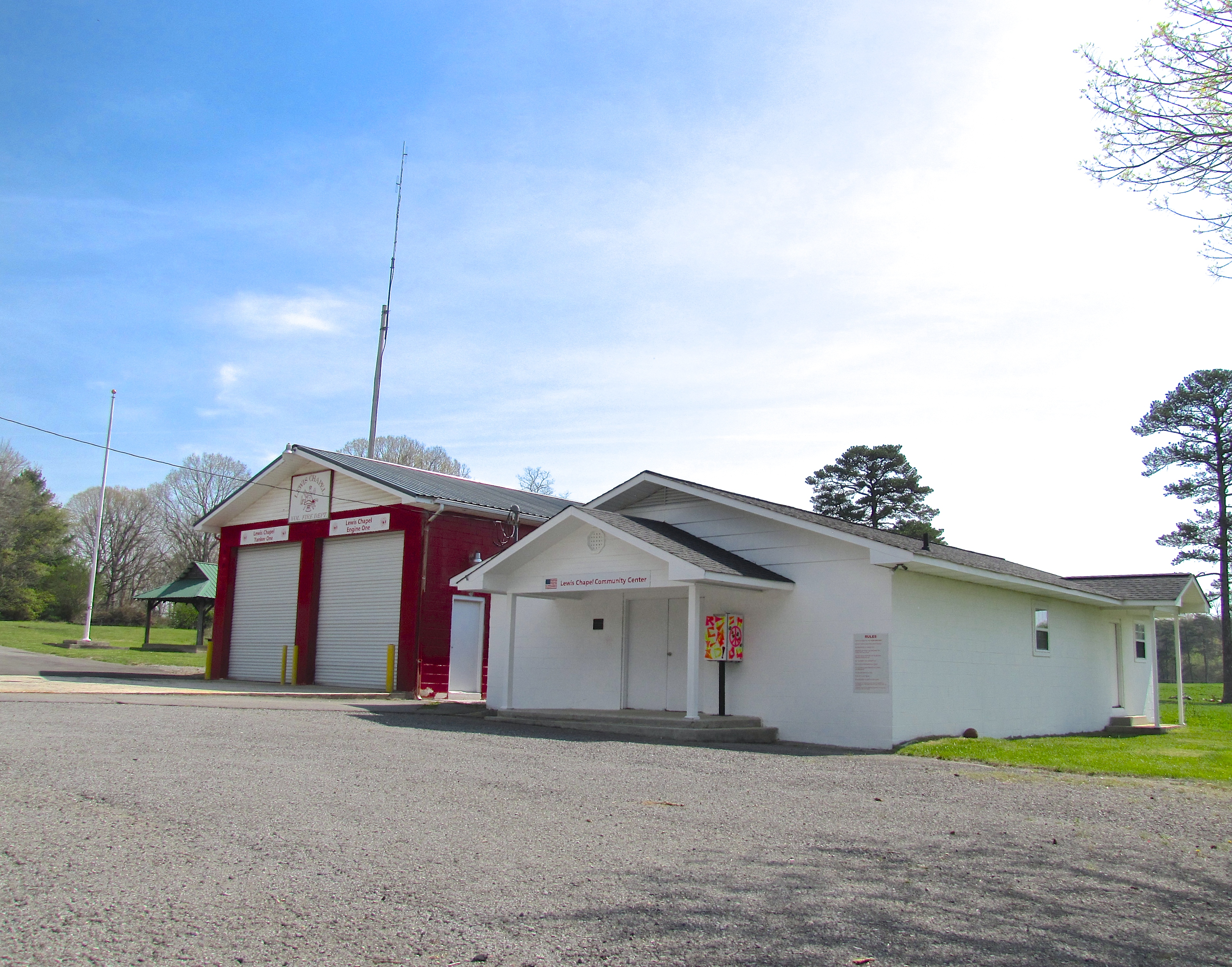 Lewis Chapel Community Center (right) and Lewis Chapel Volunteer Fire Department in the Lewis Chapel area of eastern Sequatchie County, Tennessee, United States.